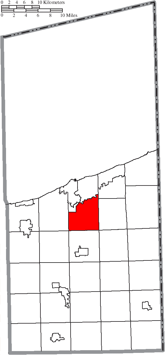 Map of the municipal and township boundaries of Ashtabula County, Ohio, United States, as of the 2000 census, with the location of Plymouth Township highlighted. Township borders are shown only in unincorporated areas in order to differentiate incorporated and unincorporated areas more clearly.